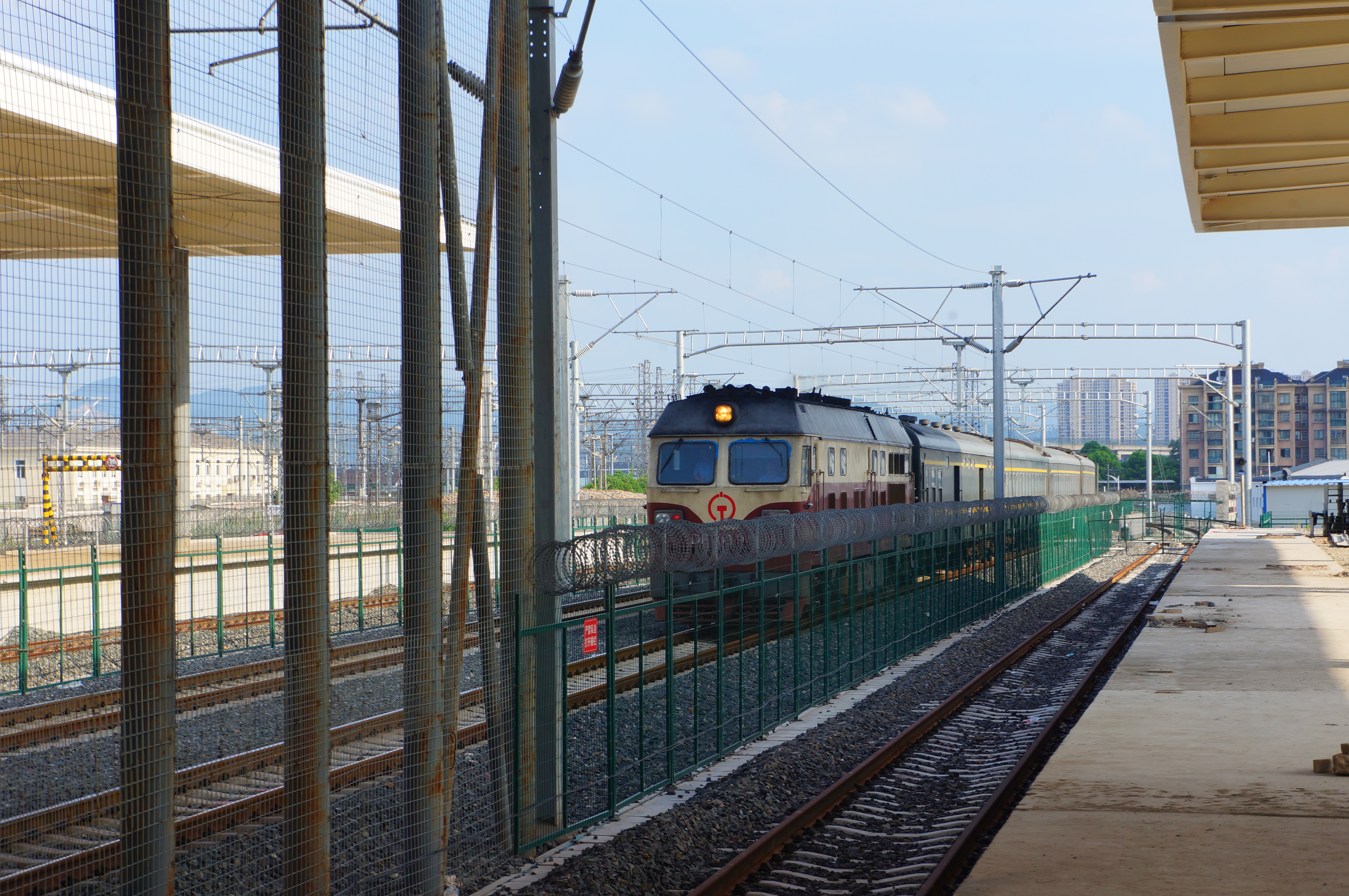 201607 T326 (Ningbo to Zhengzhou) passes Yuejiang Yard of Hangzhounan Station,all the conventional trains currently use Yuejiang Yard